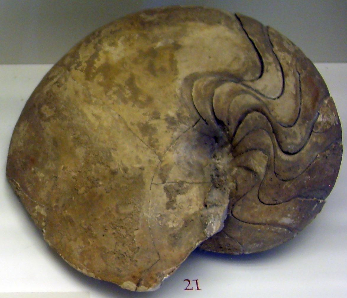 Hercoglossa danica fossil at the Geological Museum in Copenhagen.